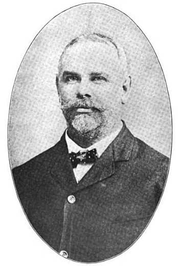 Portrait of J. Williams Beal, architect, Boston, Mass.